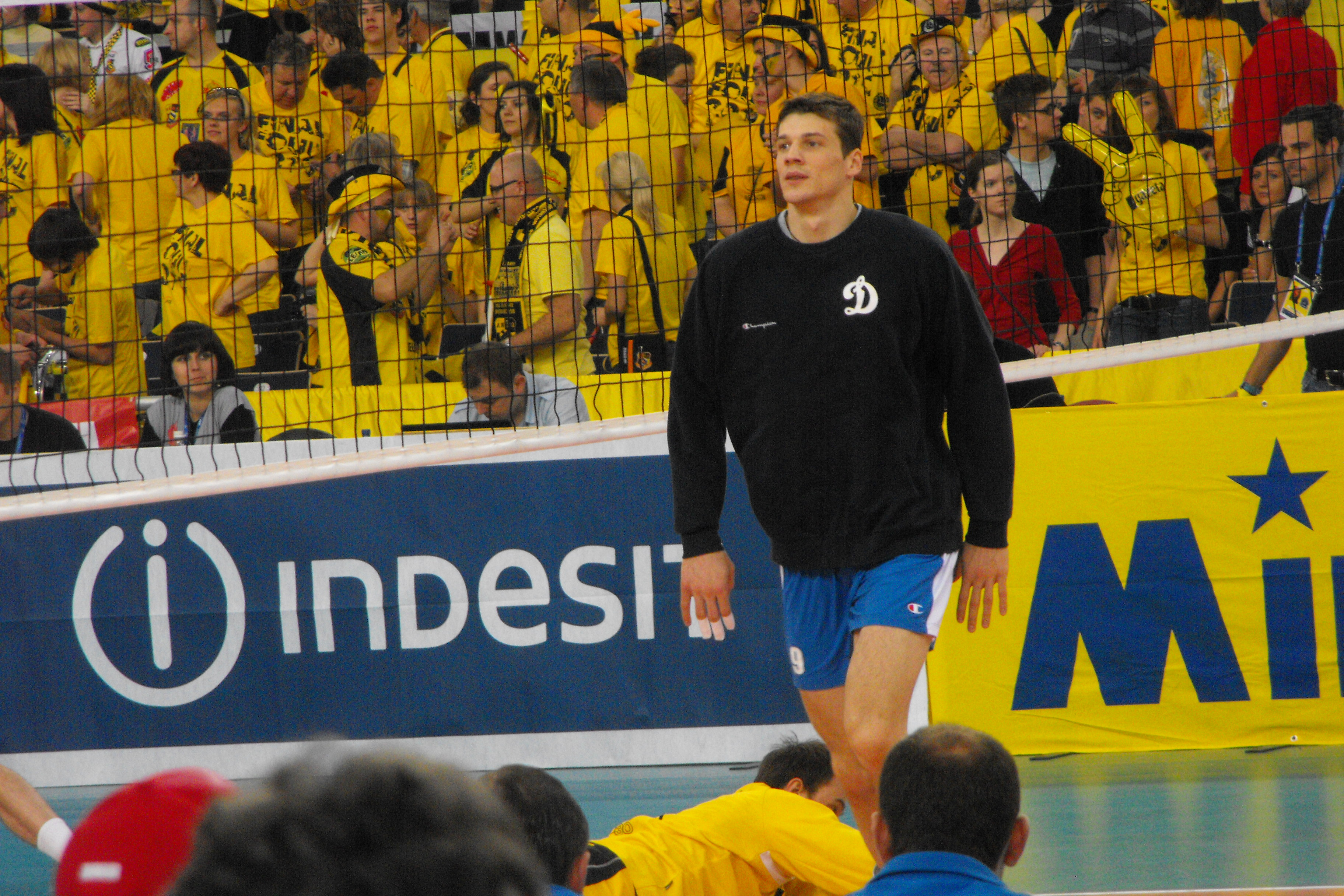 Yury Berezhko while Final Four Champions League 2010 in Lodz (Atlas Arena).